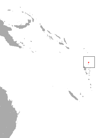 Banks Flying Fox (Pteropus fundatus) range